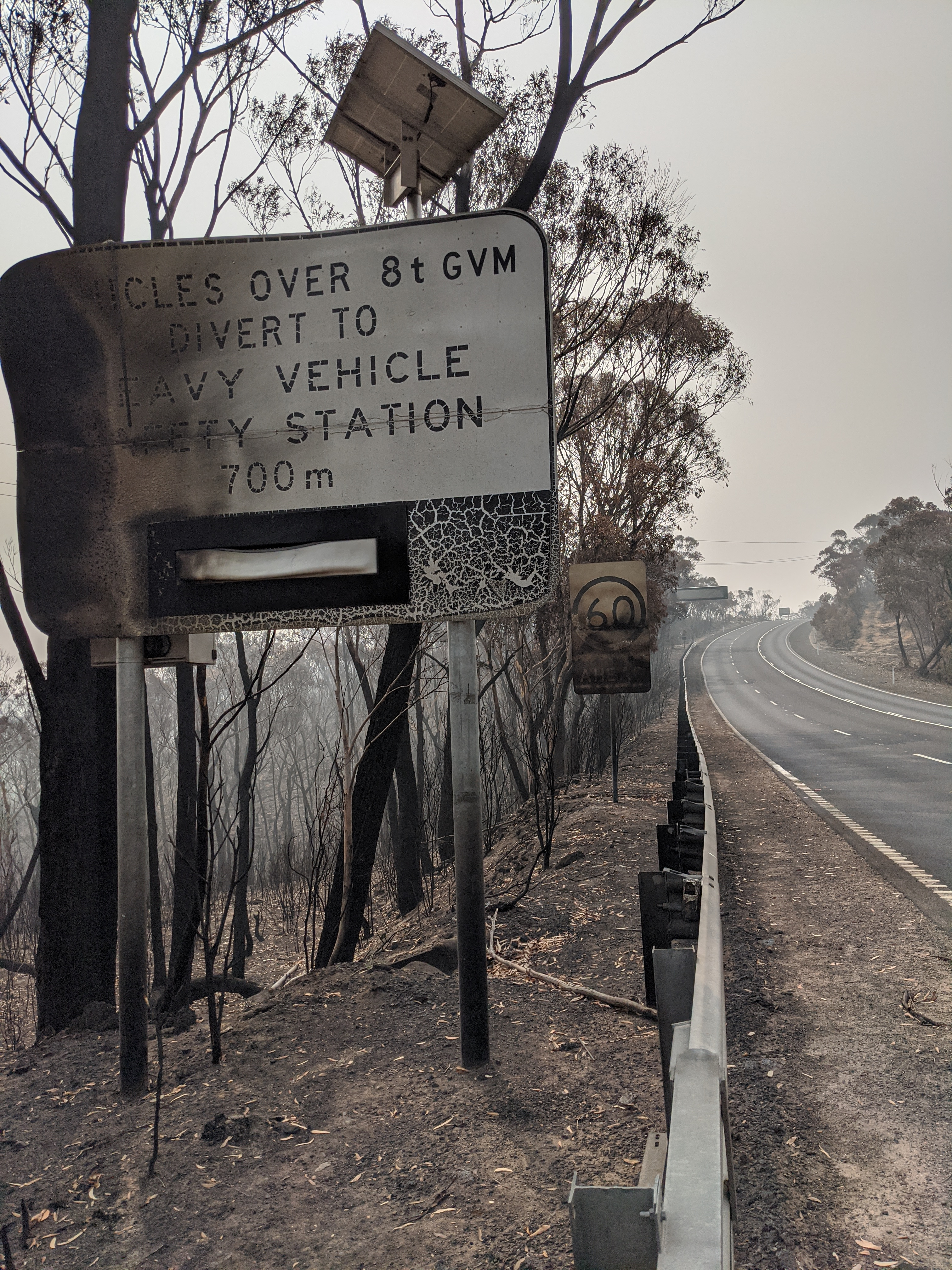 Road infrastructure damaged by the blue mountains bushfire